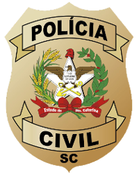 this is a logo from policia civil, santa catarina